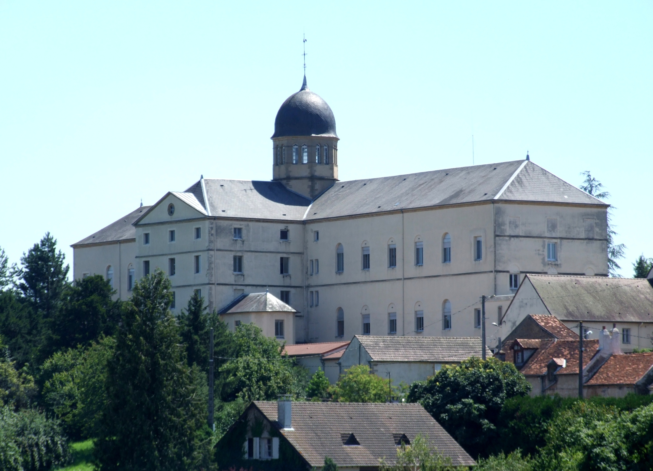 Charolles, FRANCE